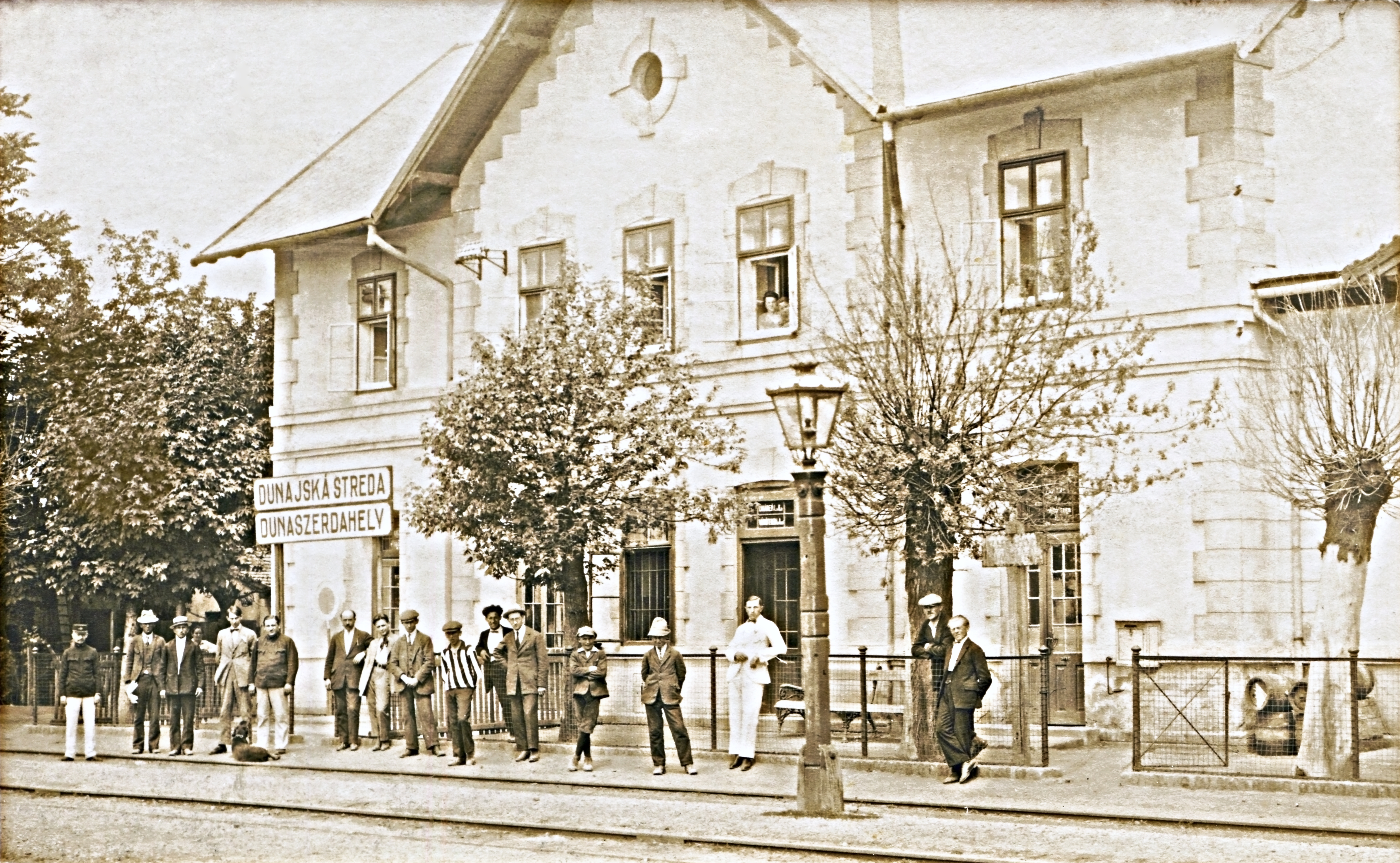 A restored sepia photo depicting the (long demolished) old train station of Dunajská Streda in the late 1920s-early 1930s. The bilingual place sign reads the city's name both in Slovak and Hungarian.